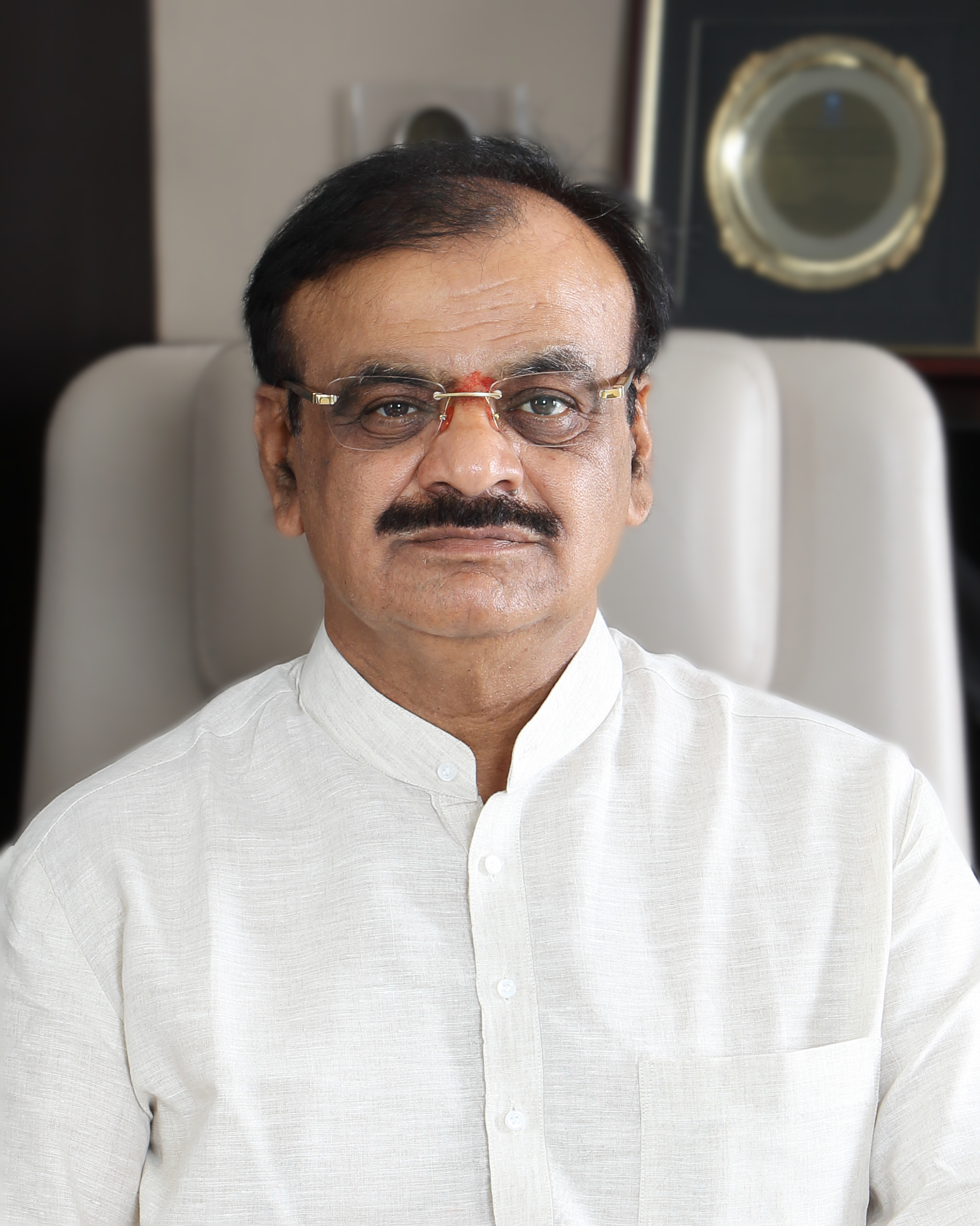 D. Kupendra Reddy, a politician and social worker from Bengaluru, Karnataka